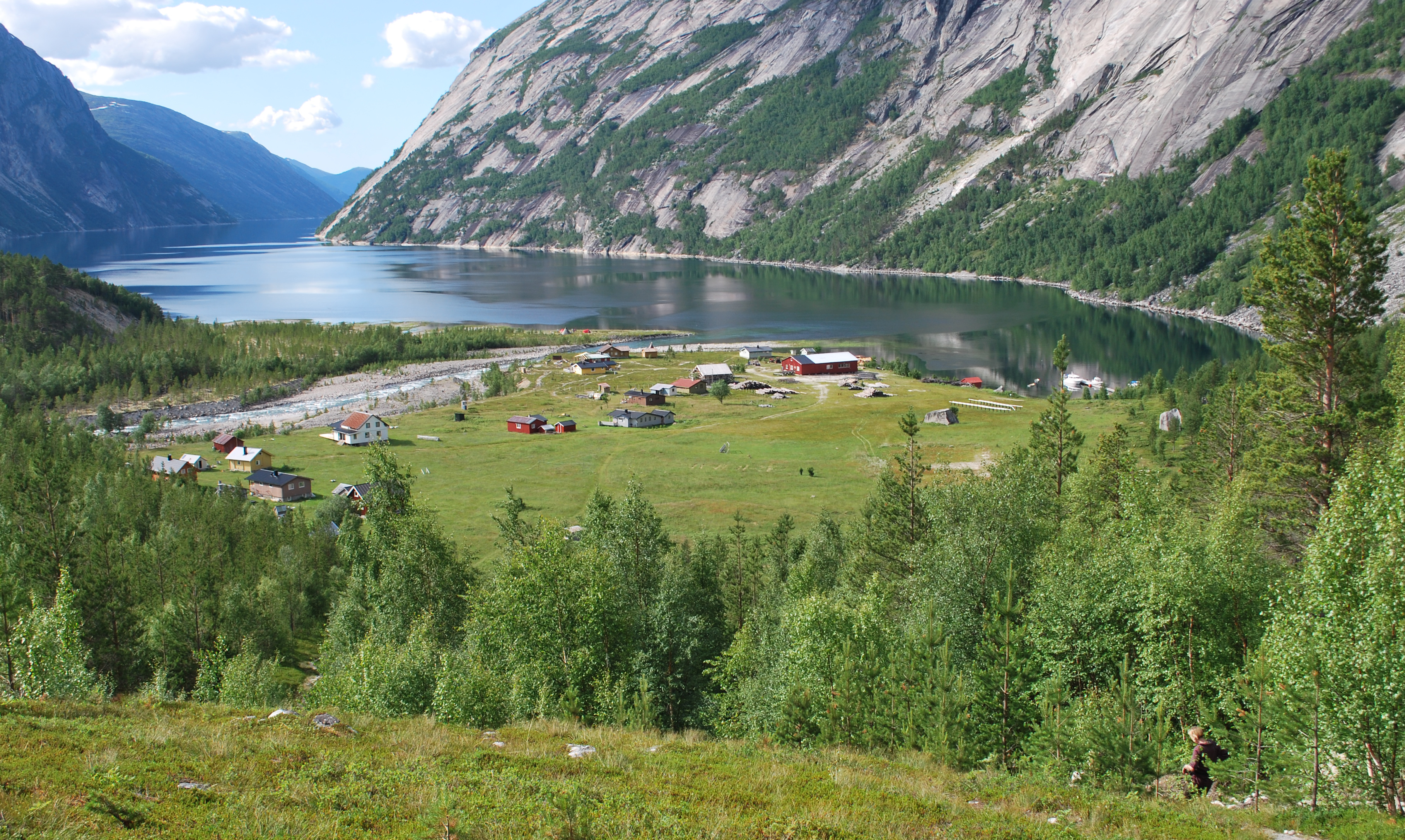 Hellemobotn with Hellemofjorden, Tysfjord